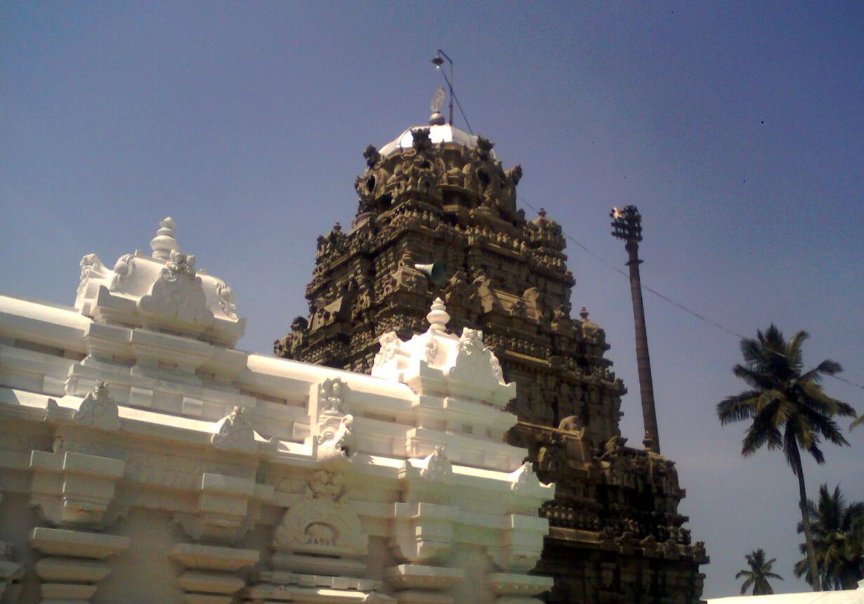 Gopuram of Srikurmam temple near Srikakulam, Andhra Pradesh